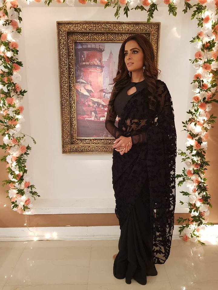 Ruhi Chaturvedi in a still from Kundali Bhagya